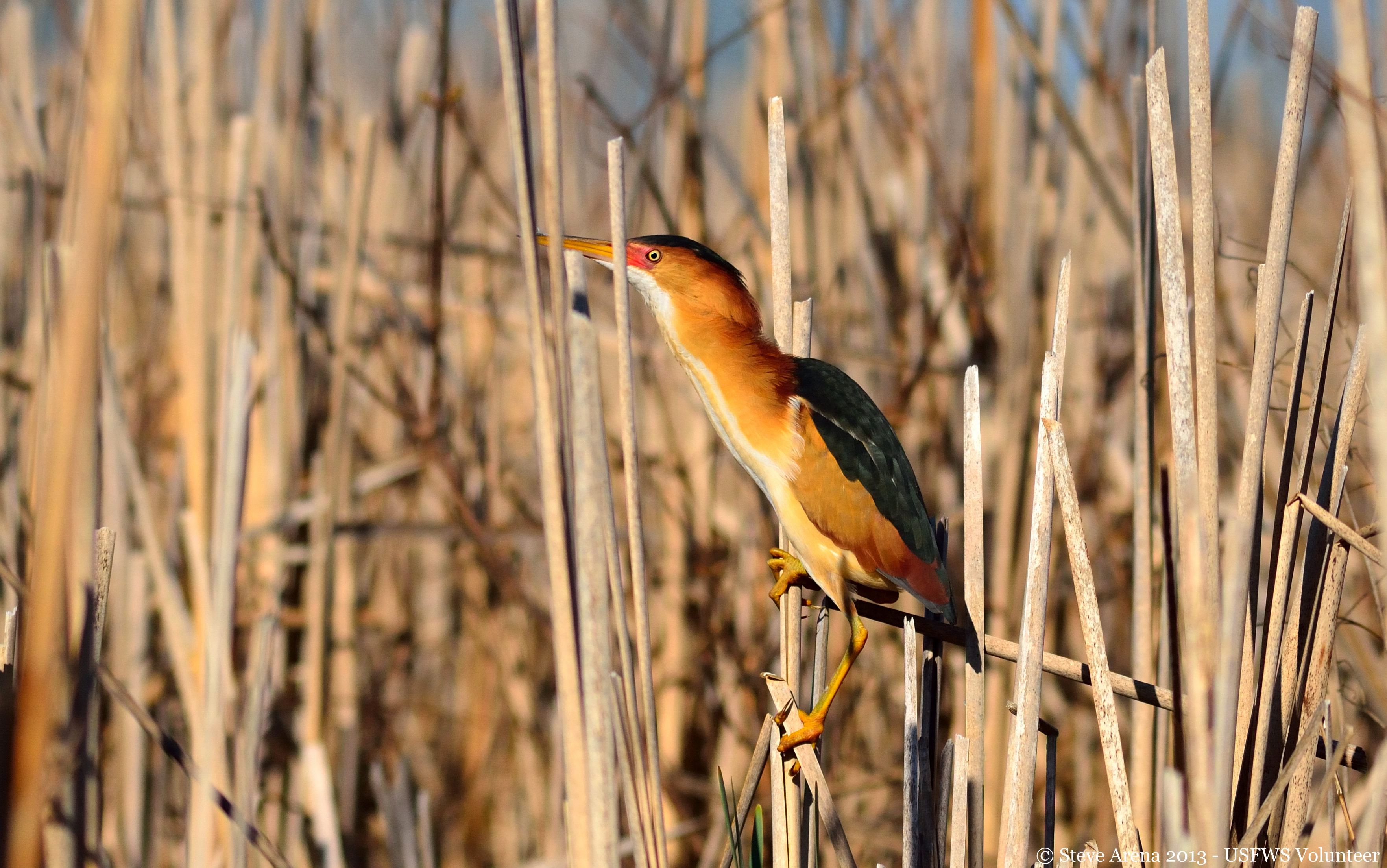 Least Bittern, Great Meadows NWR, Concord, MA Credit: Steve Arena/USFWS 04 May 2013